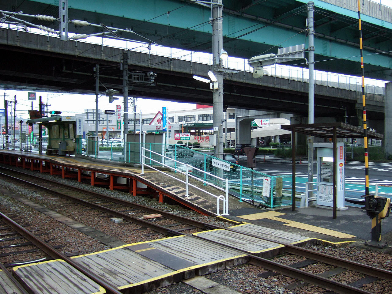 JR-kyushu Daito Station